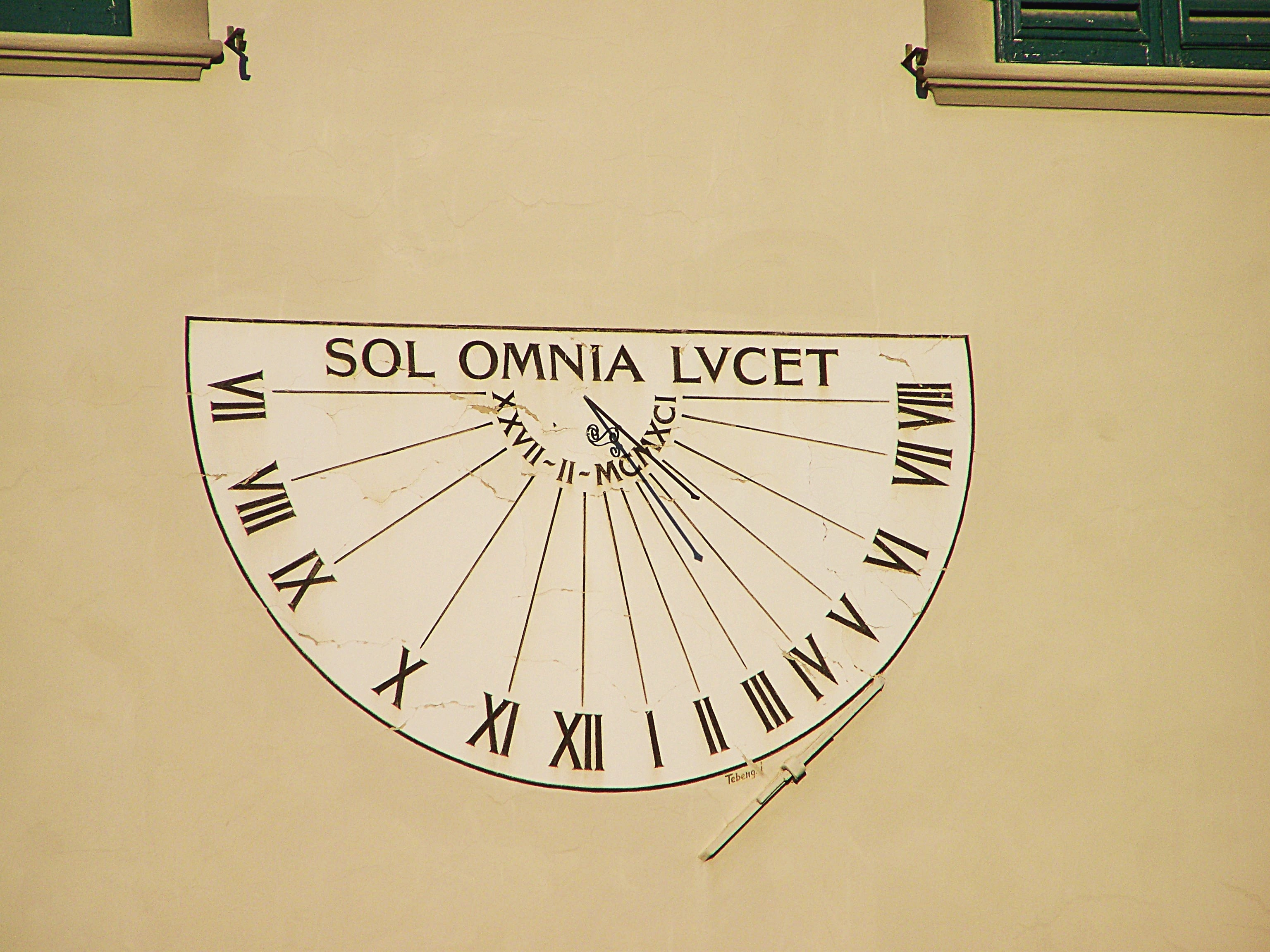 Fortress Road Palace-sundial